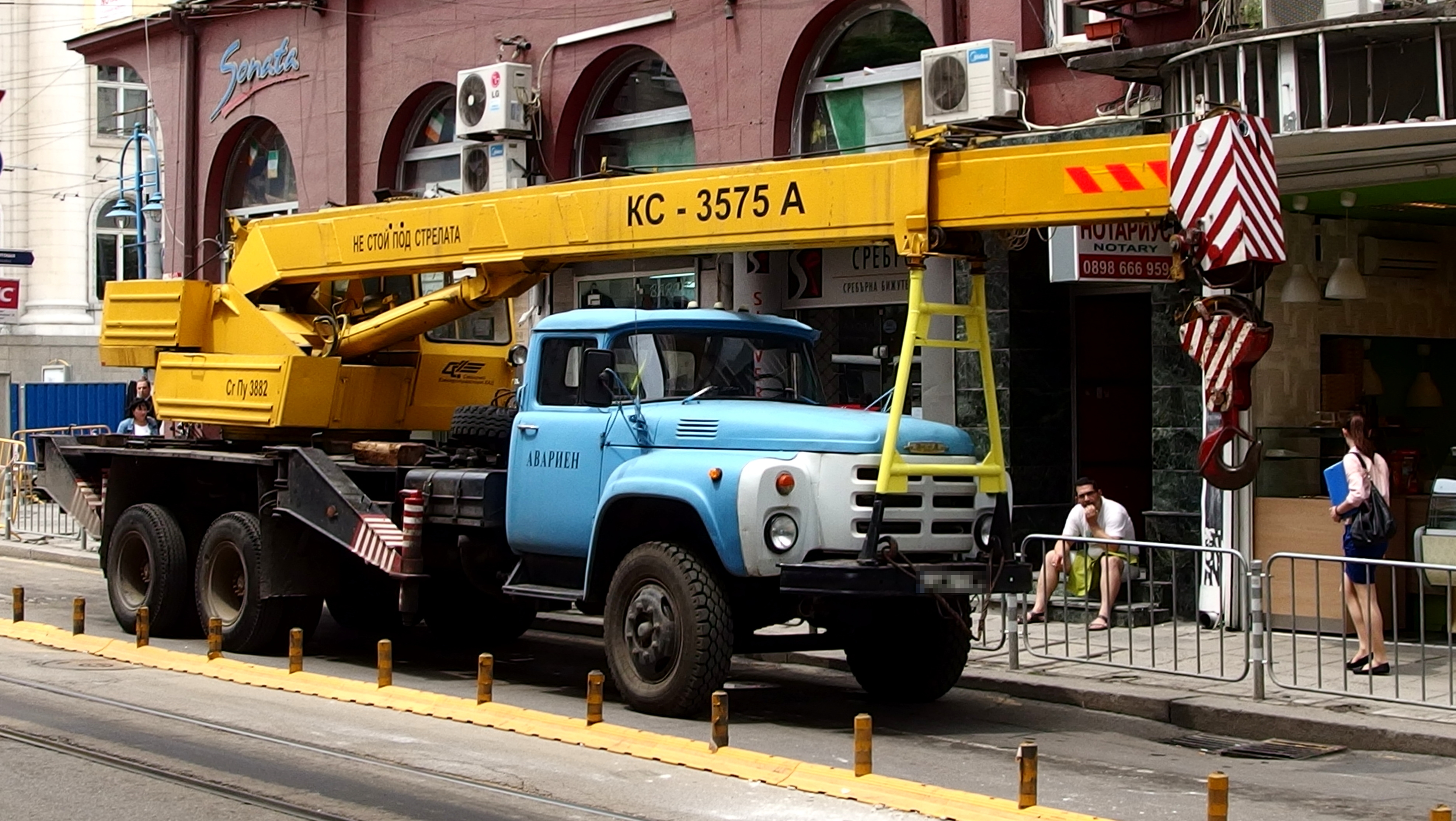 ZiL-133 based crane truck KS-3575 A in Sofia.